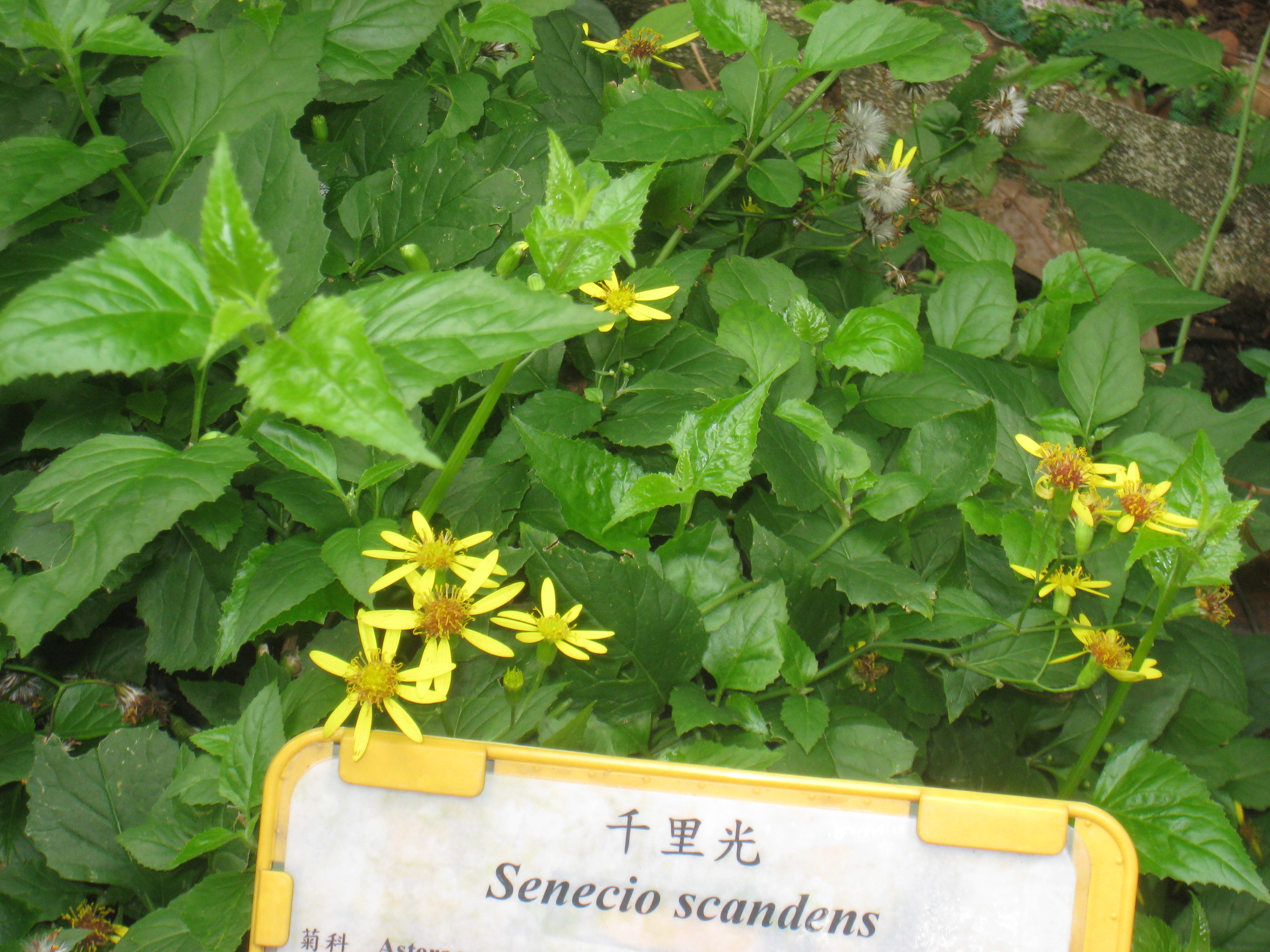 Senecio scandens. Plant specimen in the Hong Kong Zoological and Botanical Gardens, Hong Kong.